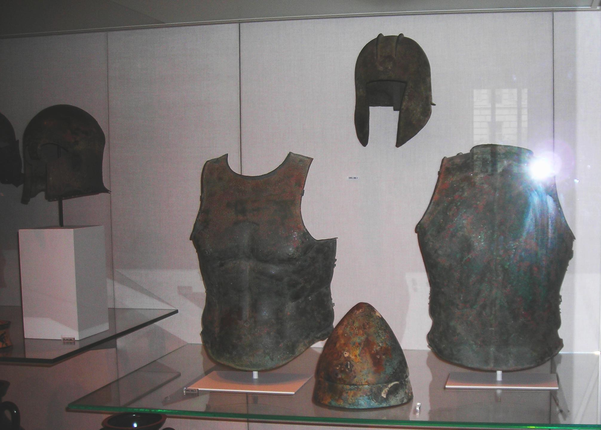 Ancient greek armor (bronze cuirass and helmets) in Metropolitan museum of art (New York)